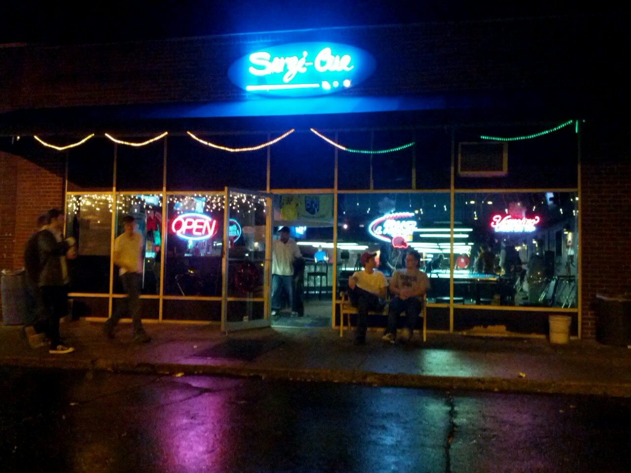 Suzi-Cue Pool Hall in the winter of 2012